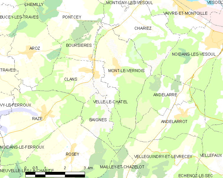 Map of French municipality